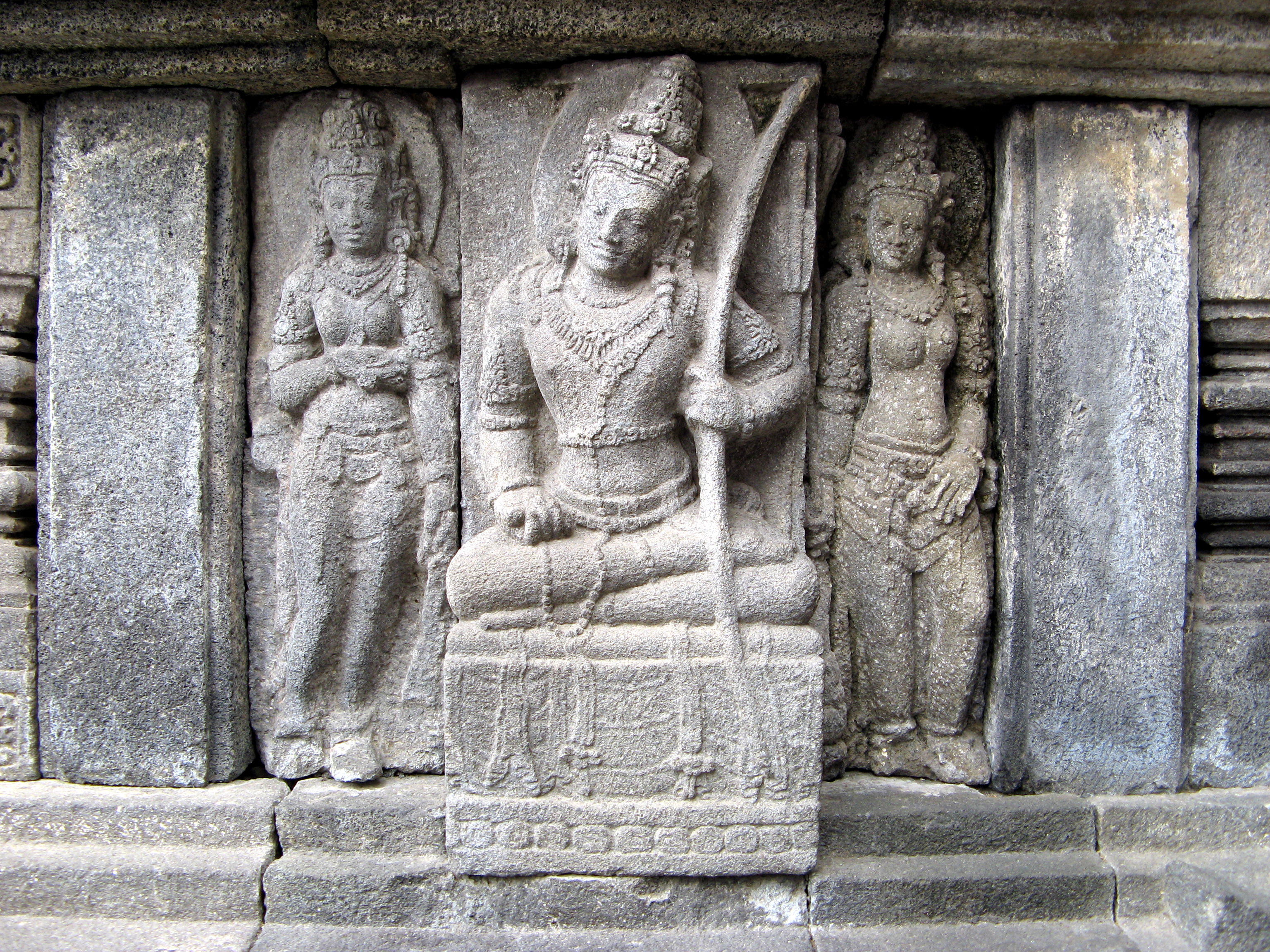 In this panel from Candi Prambanan, Rama (with bow) is seated like a king and flanked by his consorts, Lakshmi and Sri (not Sita; the Rama triad borrows its ladies from the Vishnu triad, since Rama is an incarnation of Vishnu.)